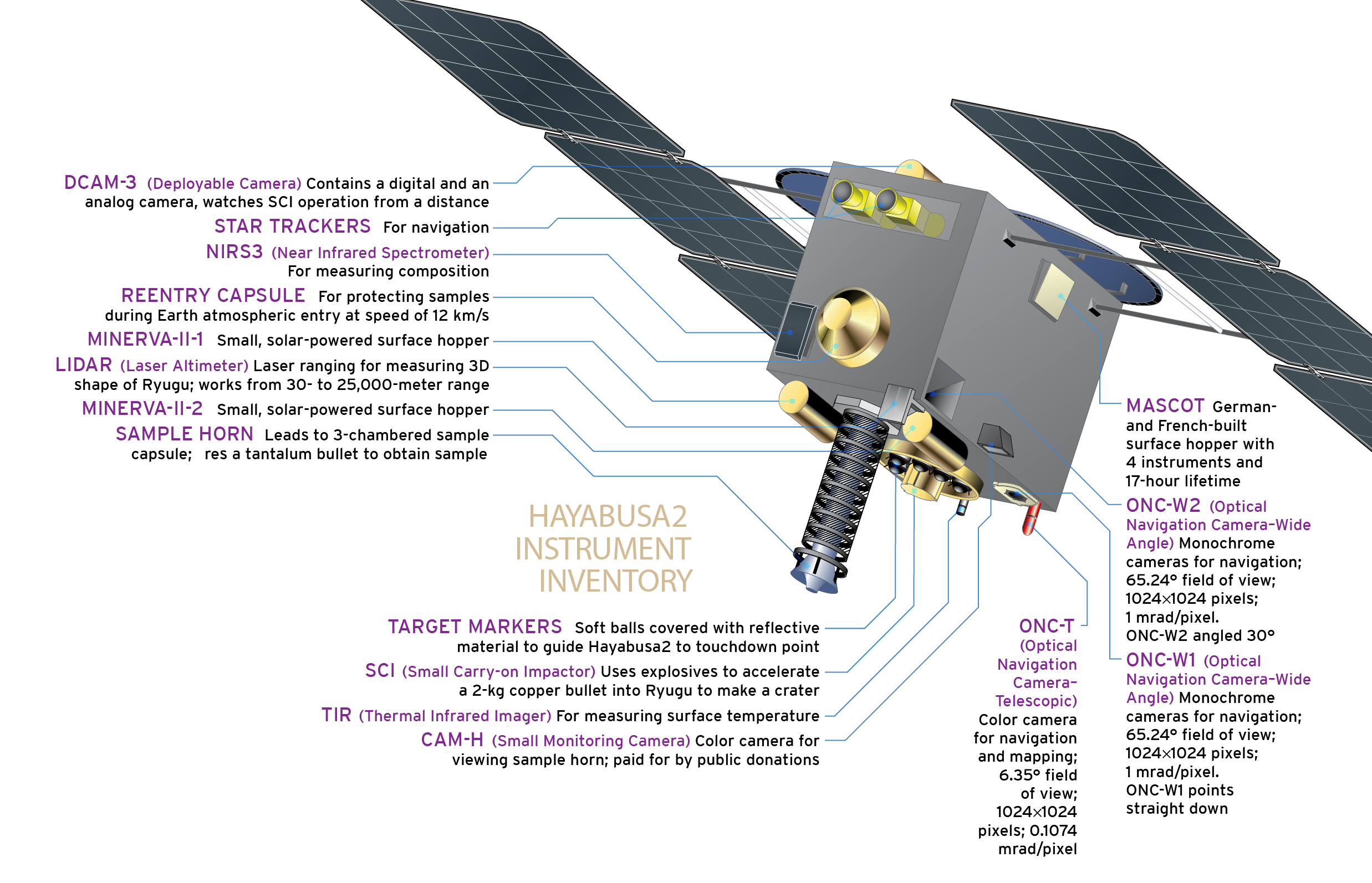 Diagram Hayabusa2 Instrument Inventory